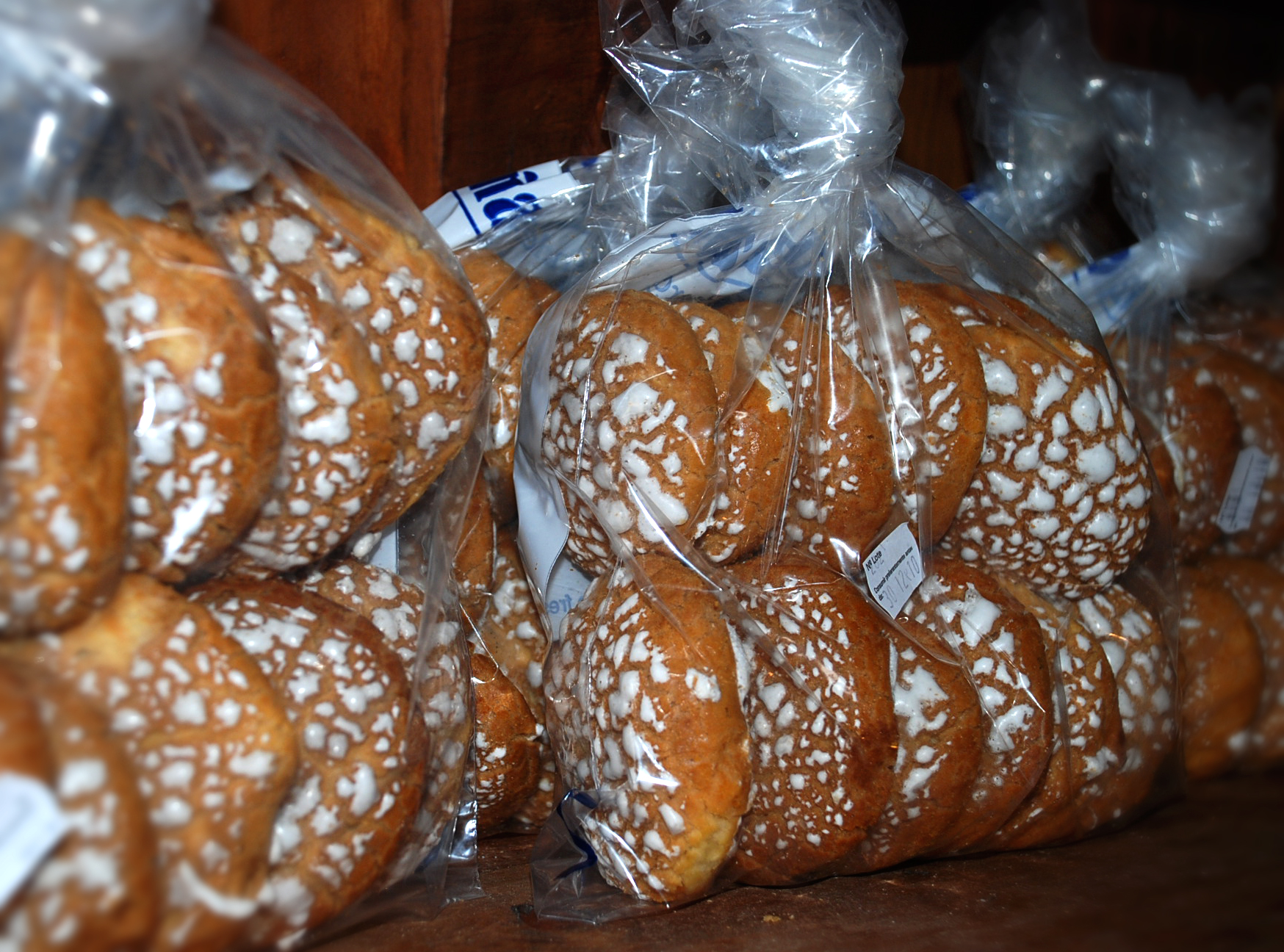 Food in the province of Palencia: Blind doughnuts elaborated in Villalcázar de Sirga (Palencia, Castile and León).